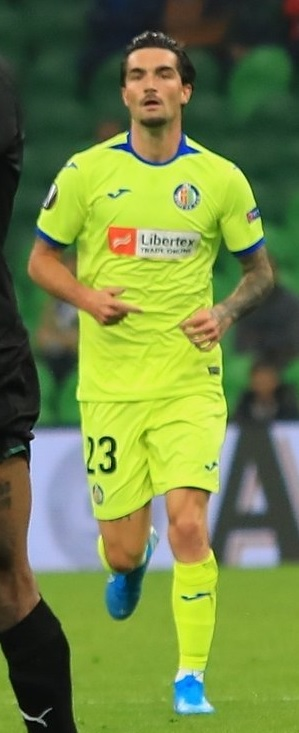 Jason with Getafe CF in an Europa League game against FC Krasnodar.